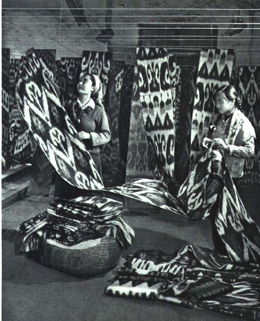 1965-01 和田缫丝厂